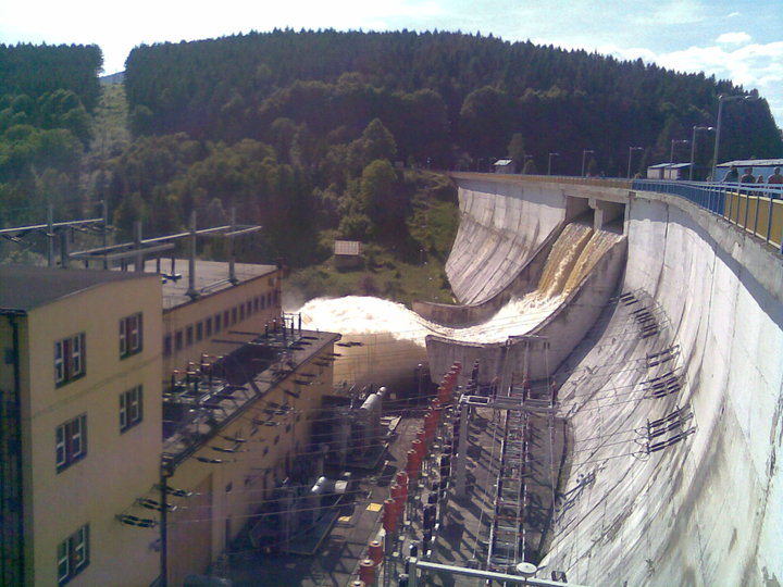 Orava dam wall during the high water level after heavy rains in 2010.